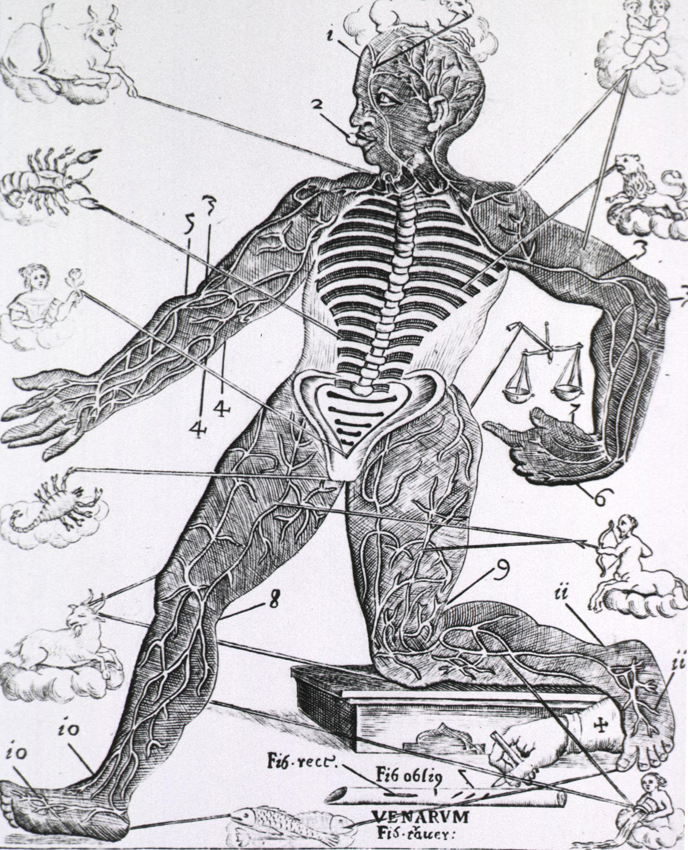 Author(s): Ricco, Daniel, fl. 1690, author Publication: Venetia, Brescia, Milano: Marc'Antonio Pandolfo Malatesta, [1690?] Language(s): Italian Format: Still image Abstract: Human figure with the spine and ribs exposed, and showing veins and arteries in the extremities of the body; astrological signs are linked to the body parts they were thought to influence. Also shown is a vein with incisions for bloodletting. Related Title(s): Is part of: Ristretto anotomico; o sia, Aleanza de gl'astri, con l'huomo, e vegetabili; frontispiece.; See related catalog record: 2403068R Extent: 1 print Technique: woodcut NLM Unique ID: 101435873 NLM Image ID: A013143 Permanent Link